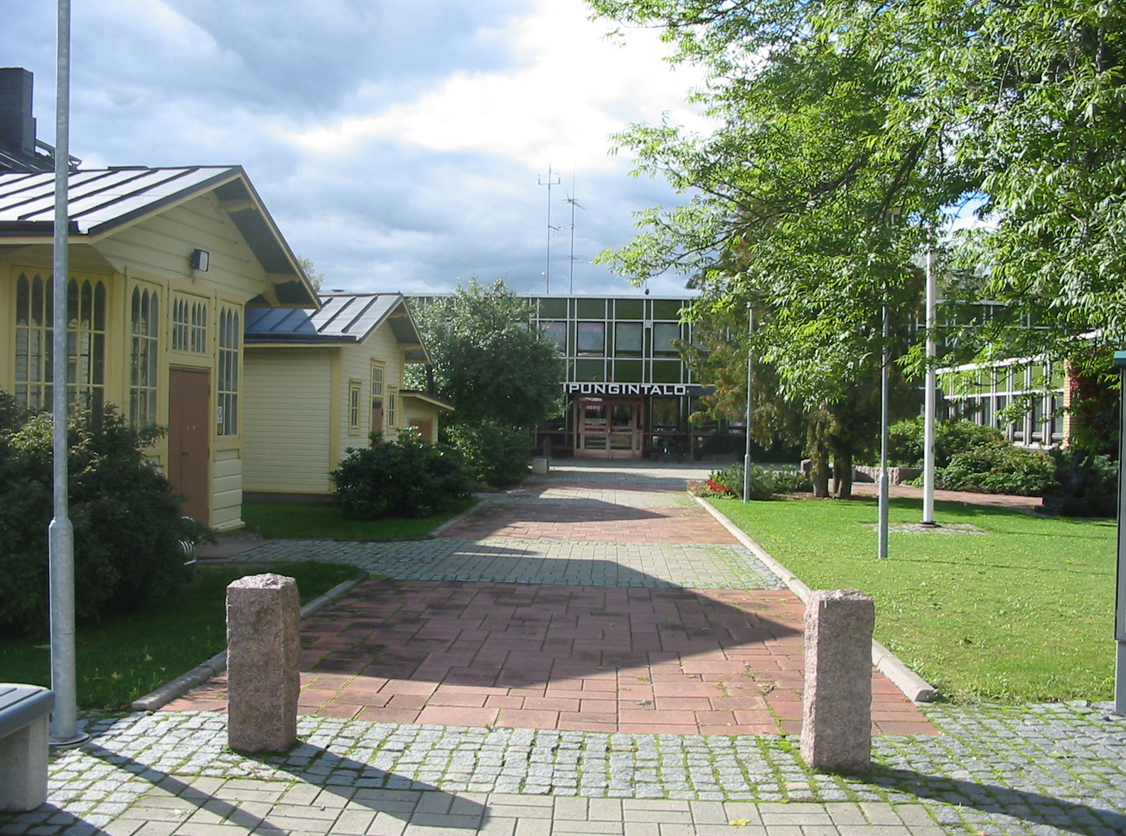 Townhall of Somero, Finland.